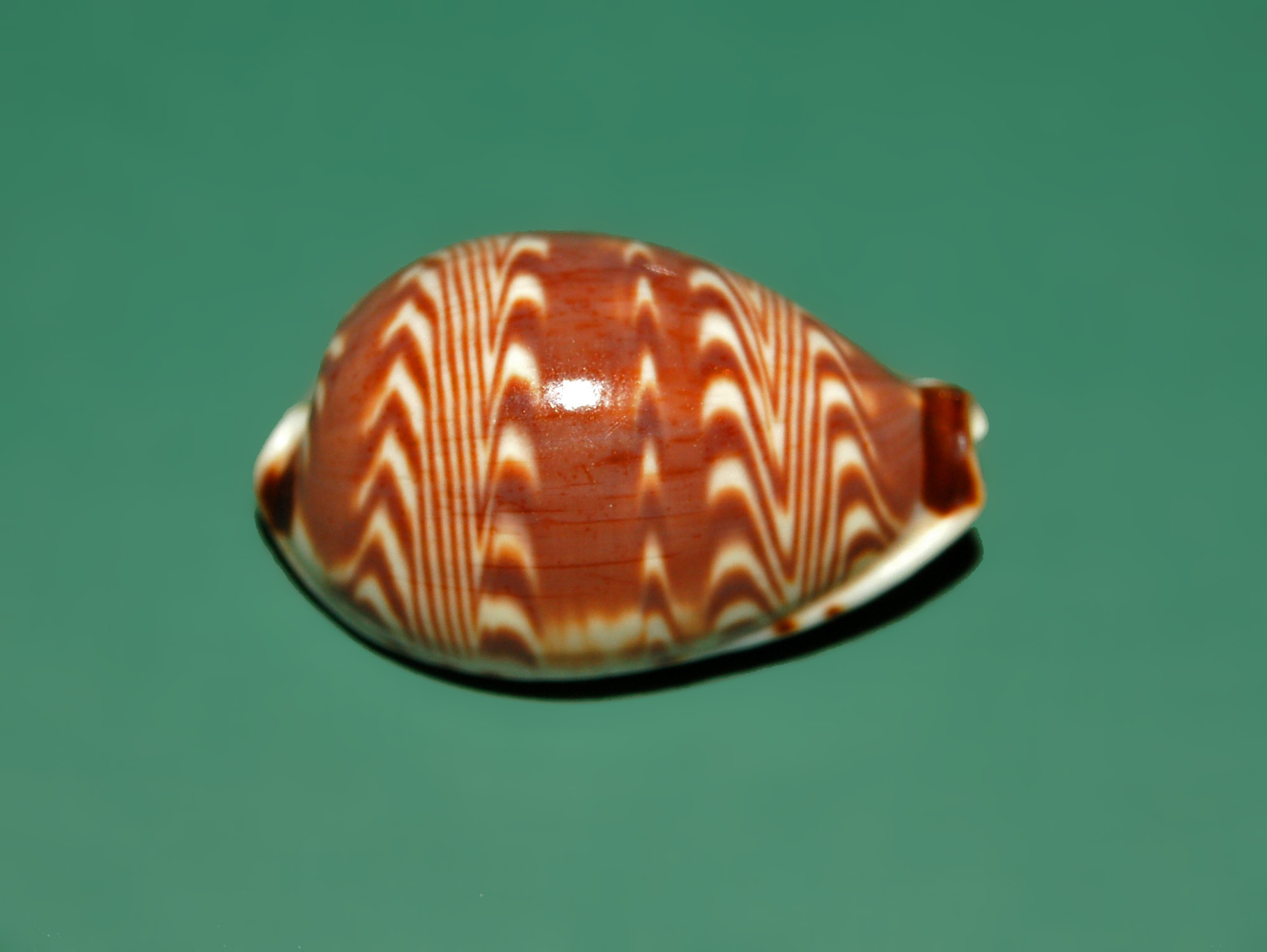 Palmadusta diluculum